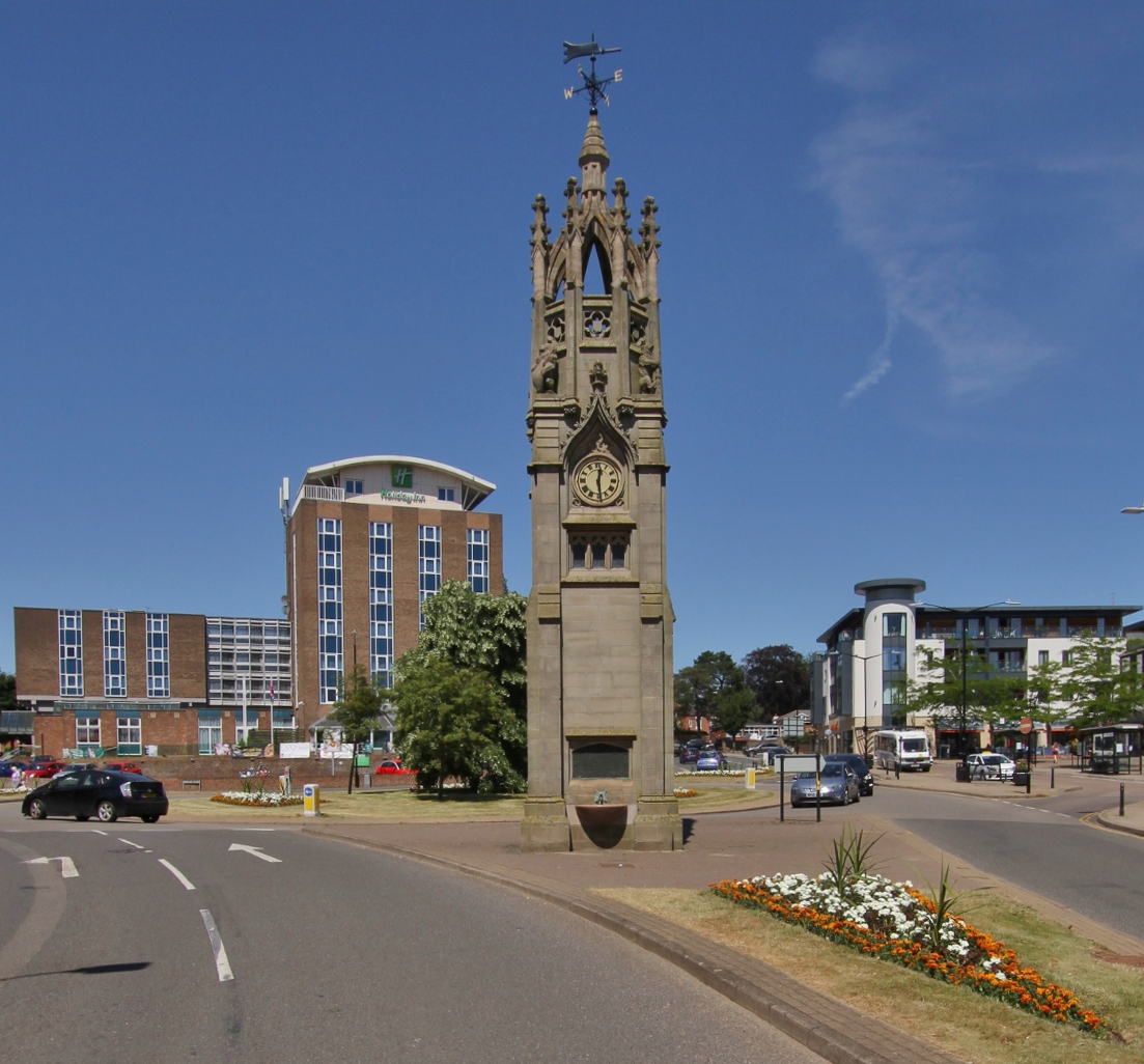 The Clock Tower, The Square, Kenilworth, Warwickshire, seen from south-southeast, with the Holiday Inn (formerly the De Montfort Hotel) in the background on the left